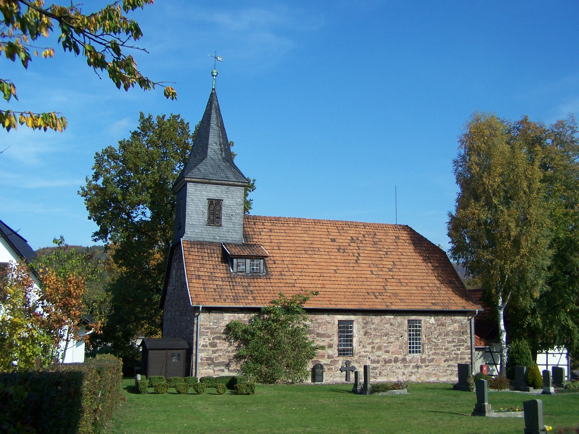 The church in Schönau/Hörsel.